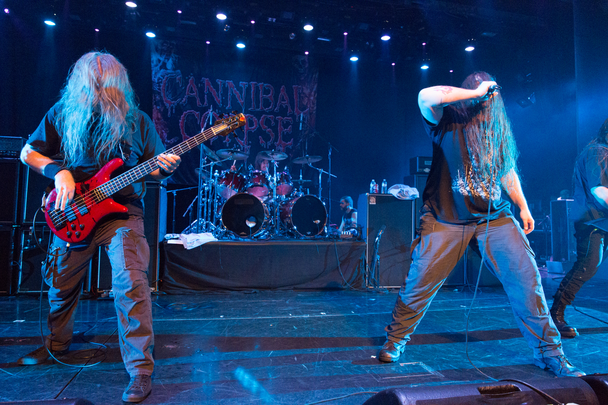 Cannibal Corpse performing at 70.000 tons of metal, january 2015